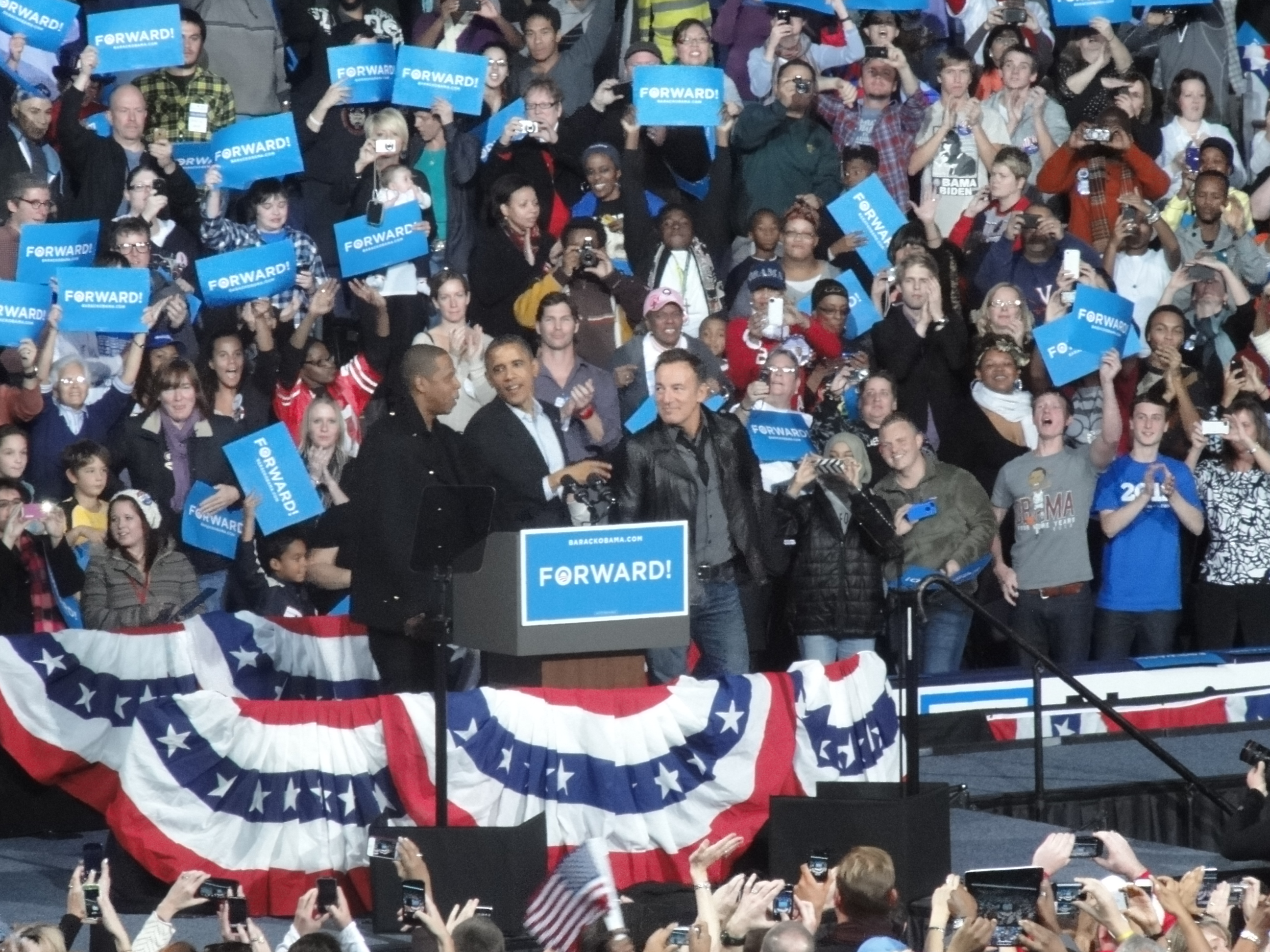 Obama Pre-Election Rally 2012 Columbus Ohio w/ Bruce Springsteen and Jay-Z All I had was the point and shoot but still got some OK pics